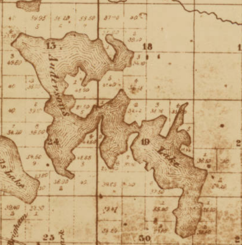 This clipping from R. Cook's "Sectional Map of Hennepin Co. Minnesota Showing Cities, Townships, Townsites, Roads & RailRoads" (1860) shows the contemporary Bush Lake (Bloomington, MN) as a bay on Andersons Lake (now the Anderson Lakes chain).